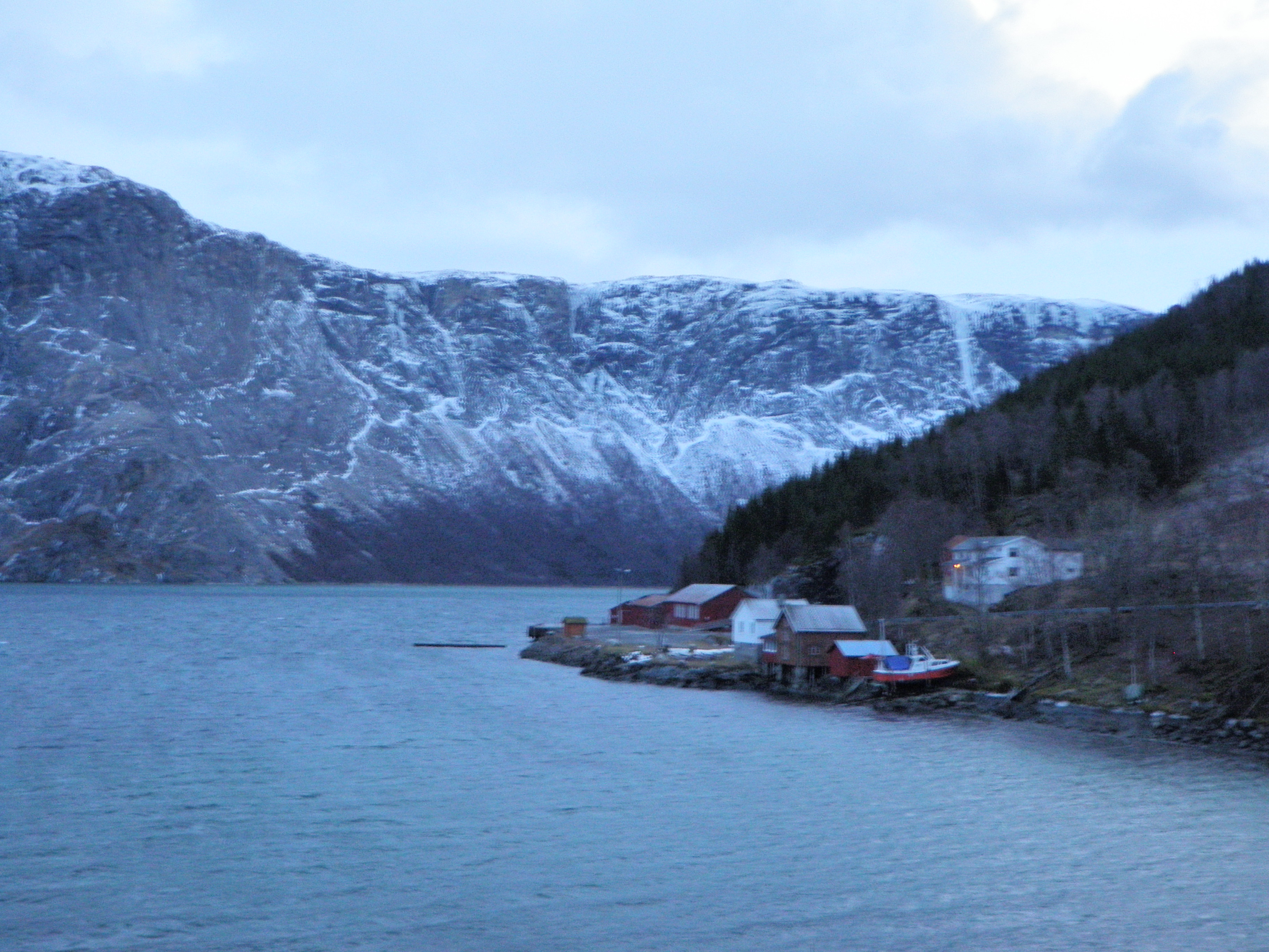 The harbour in the village of Tvervik in Beiarn, Norway, viewed from a nearby road.